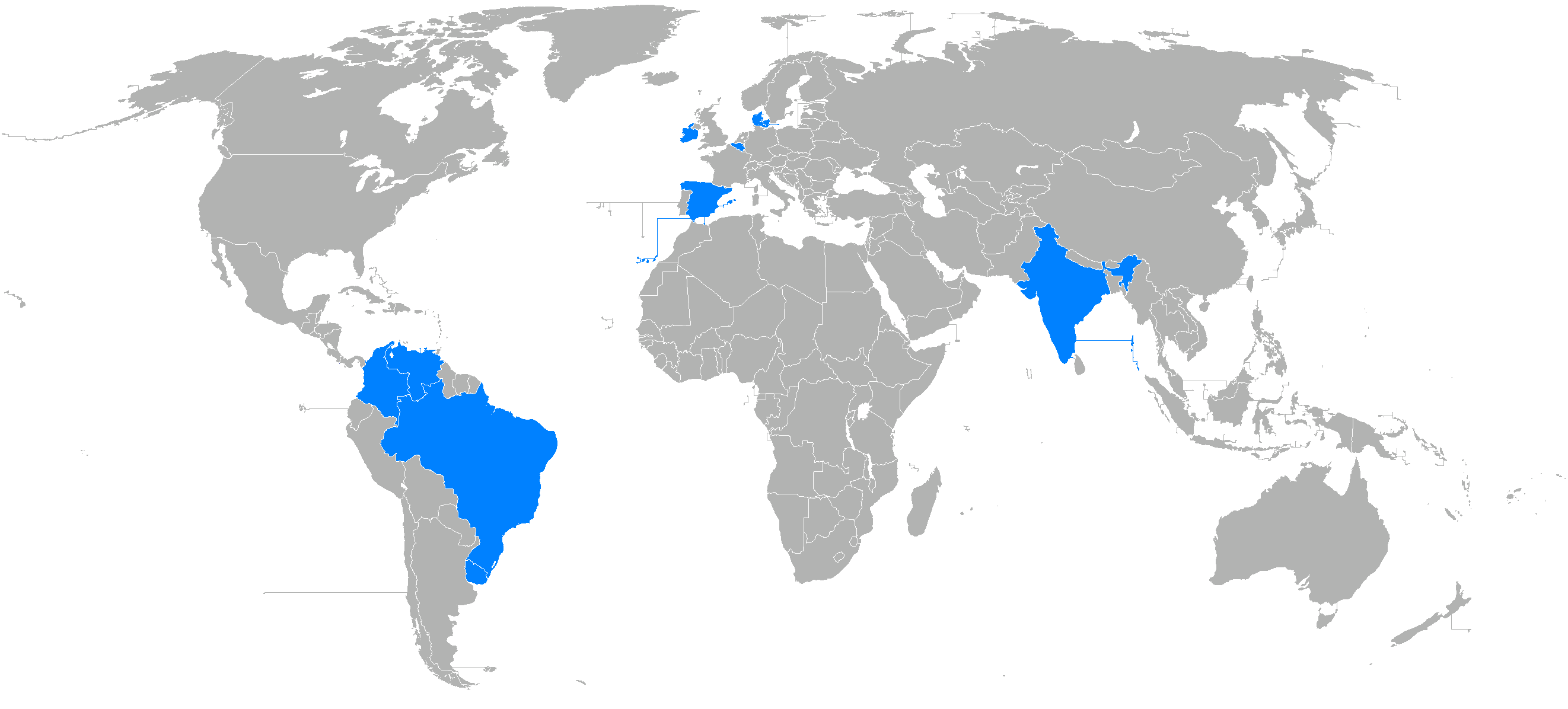 Countries that win Mr. World.